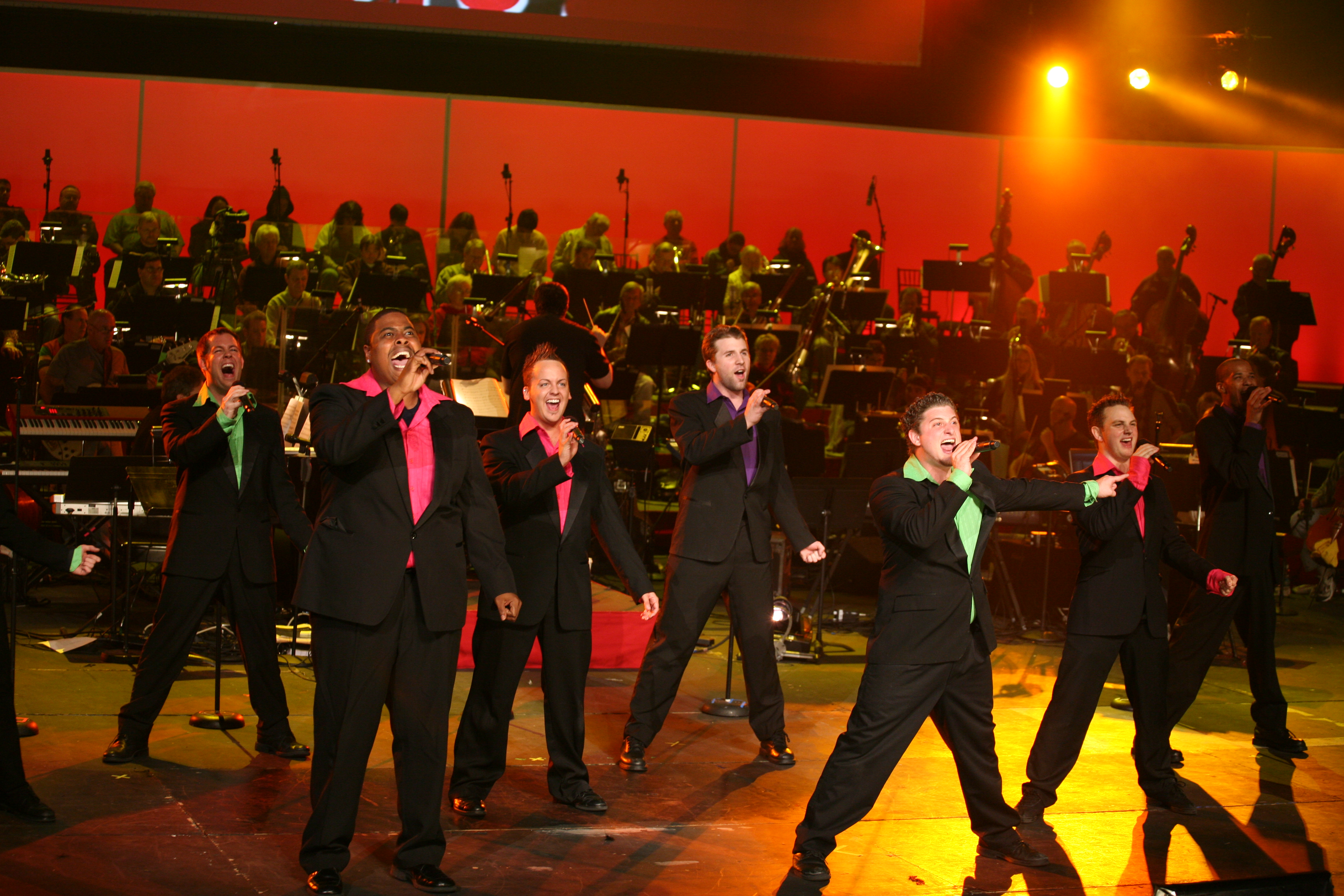 The Young Americans performing in the Tarbell Realty show at the Anaheim Pond in 2007.